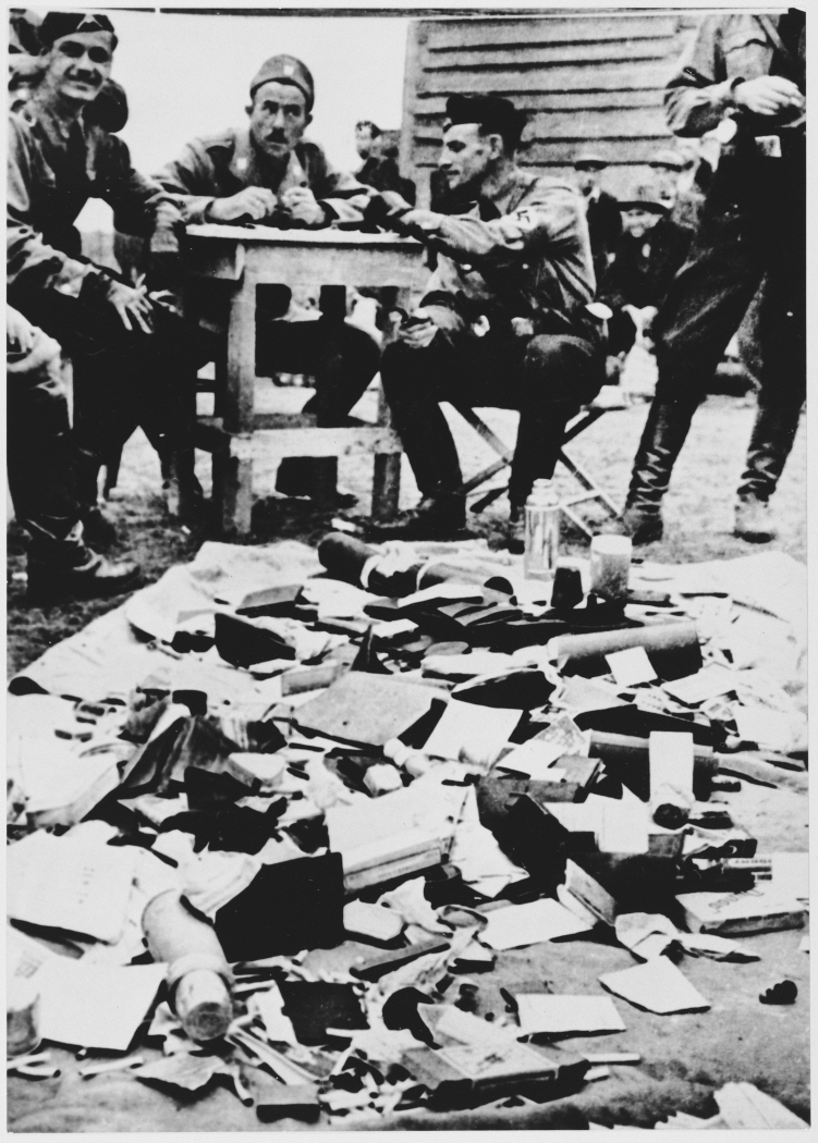 Ustasa personnel at the Jasenovac concentration camp view a pile of confiscated property looted from prisoners interned in the camp.